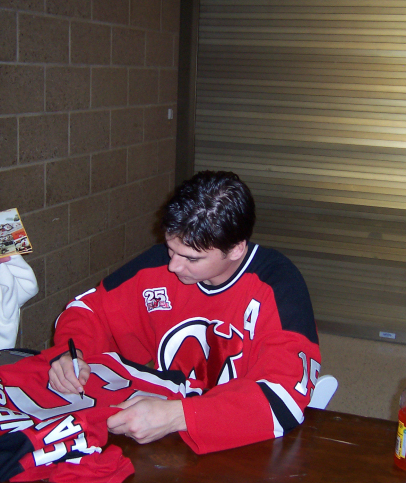 Captain Jamie Langenbrunner of the New Jersey Devils signing autographs